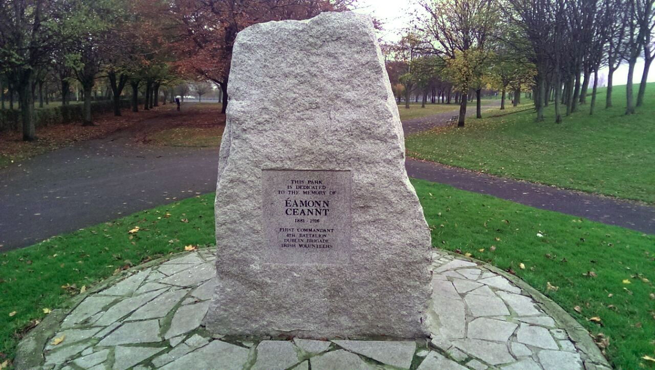 Copy of File:Eamonn Ceannt Park.pdf, uploaded by User:Alyceleggett on 25 November 2014 under the Creative Commons Attribution-Share Alike 4.0 International license, photoshopped to remove colour cast, increase contrast and convert to .jpg file.